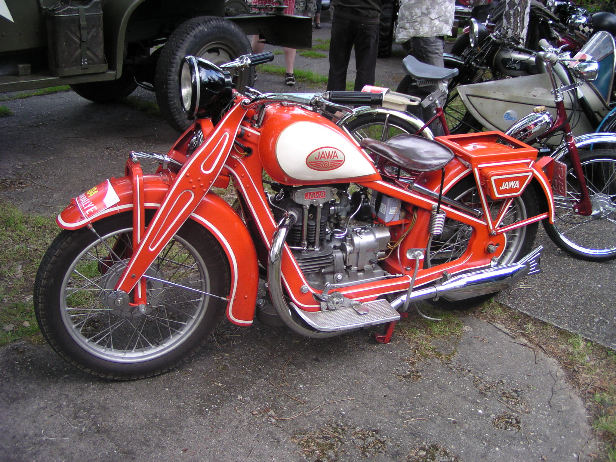 Jawa 500 OHV (Veteral Rallye Krivonoska 2009)